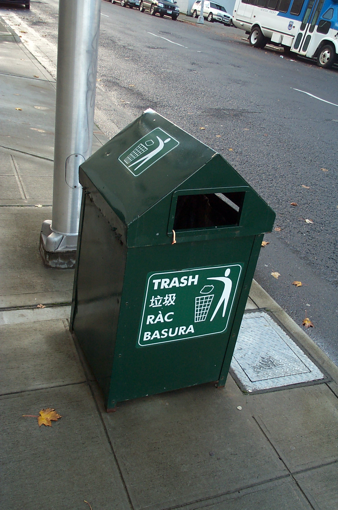 A trash can in Seattle labeled in five languages: English, Chinese, Vietnamese (incorrectly),Spanish, and Filipino/Tagalog .